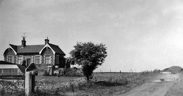 Former Bluestone Station. View NNE, across the course of the ex-M&GN Melton Constable - Yarmouth line, between Corputsy & Saxthorpe (to left) and Aylsham (to right) and on the southern edge of RAF Oulton (a Bomber Command wartime satellite airfield). The prominent house belonged to the Railway until the line was closed on 2/3/59, this station having been closed to passengers as long ago as 1/3/16.